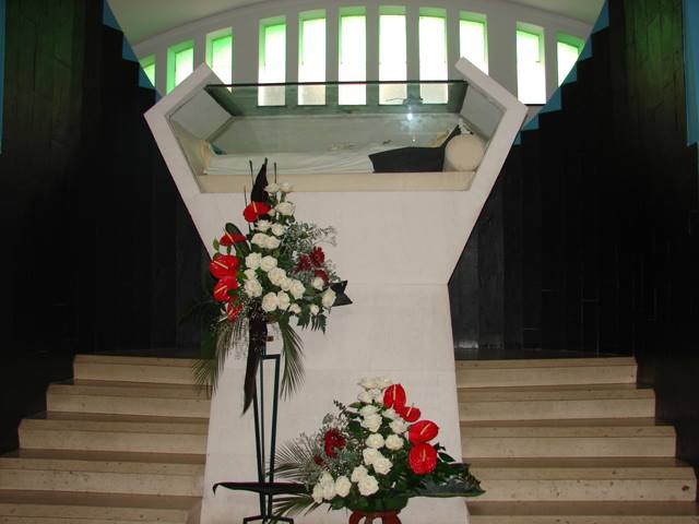 Reliquary of Blessed Mary of the Divine Heart Droste zu Vischering exposed in the Church of the Sacred Heart of Jesus, in Ermesinde, Portugal.